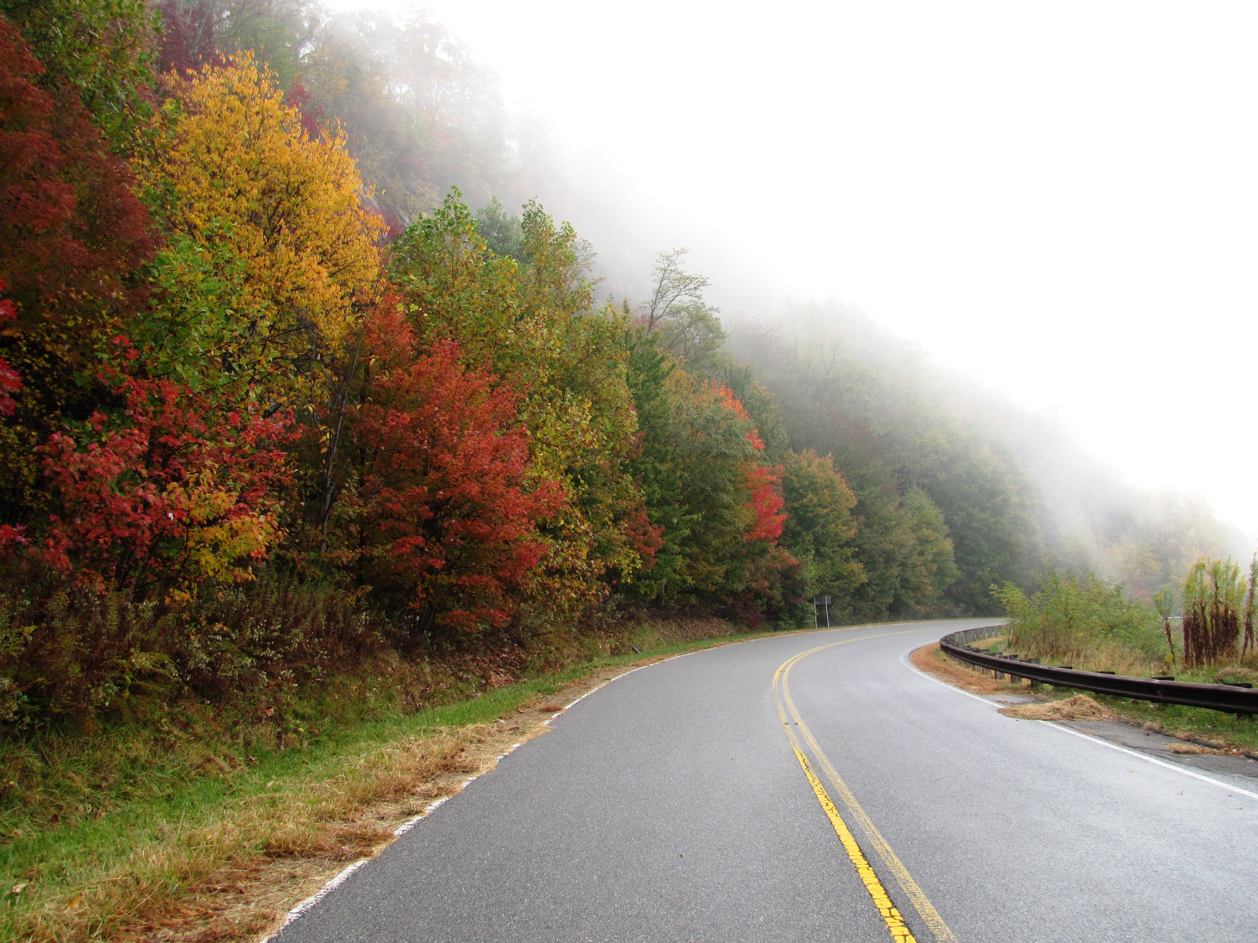 View along the Cherohala Skyway, near the 4,000-ft mark, in Monroe County, Tennessee, USA.